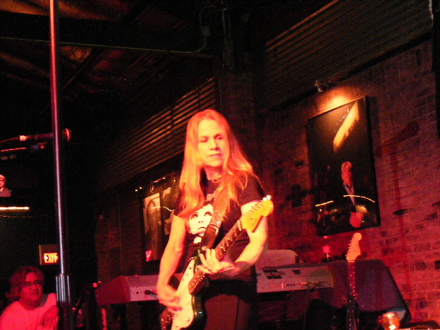 The Go-Go's at Antone's in Austin, TX. Charlotte Caffey (lead guitar)